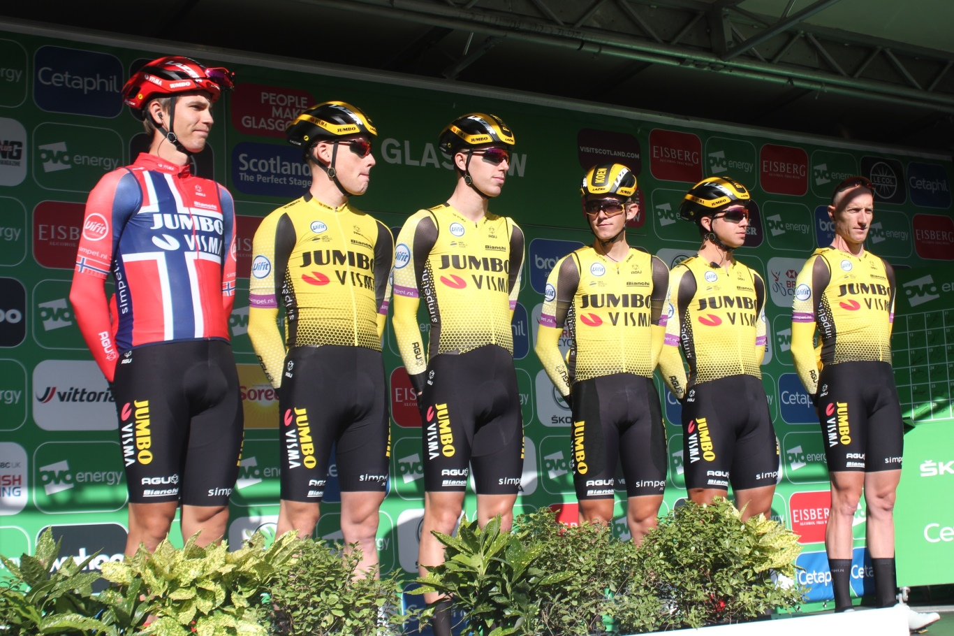 The Jumbo-Visma team at the start of the 109 Tour of Britain. The riders are Dylan Groenewegen, Koen Bouwman, Pascal Eenkhoorn, Mike Teunissen, Jos van Emden and Norwegian road racing champion Amund Jansen.